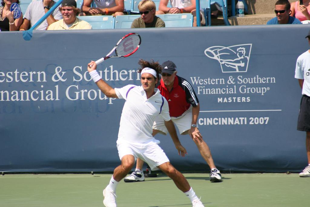 Roger in his quarterfinal match at the 2007 Cincinnati Masters where he defeated Nicolás Almagro in three sets and went on to win his 50th title.